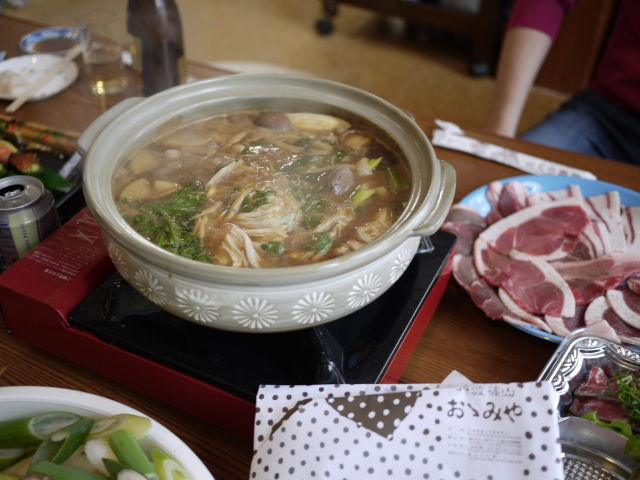 Bear soup in Japan